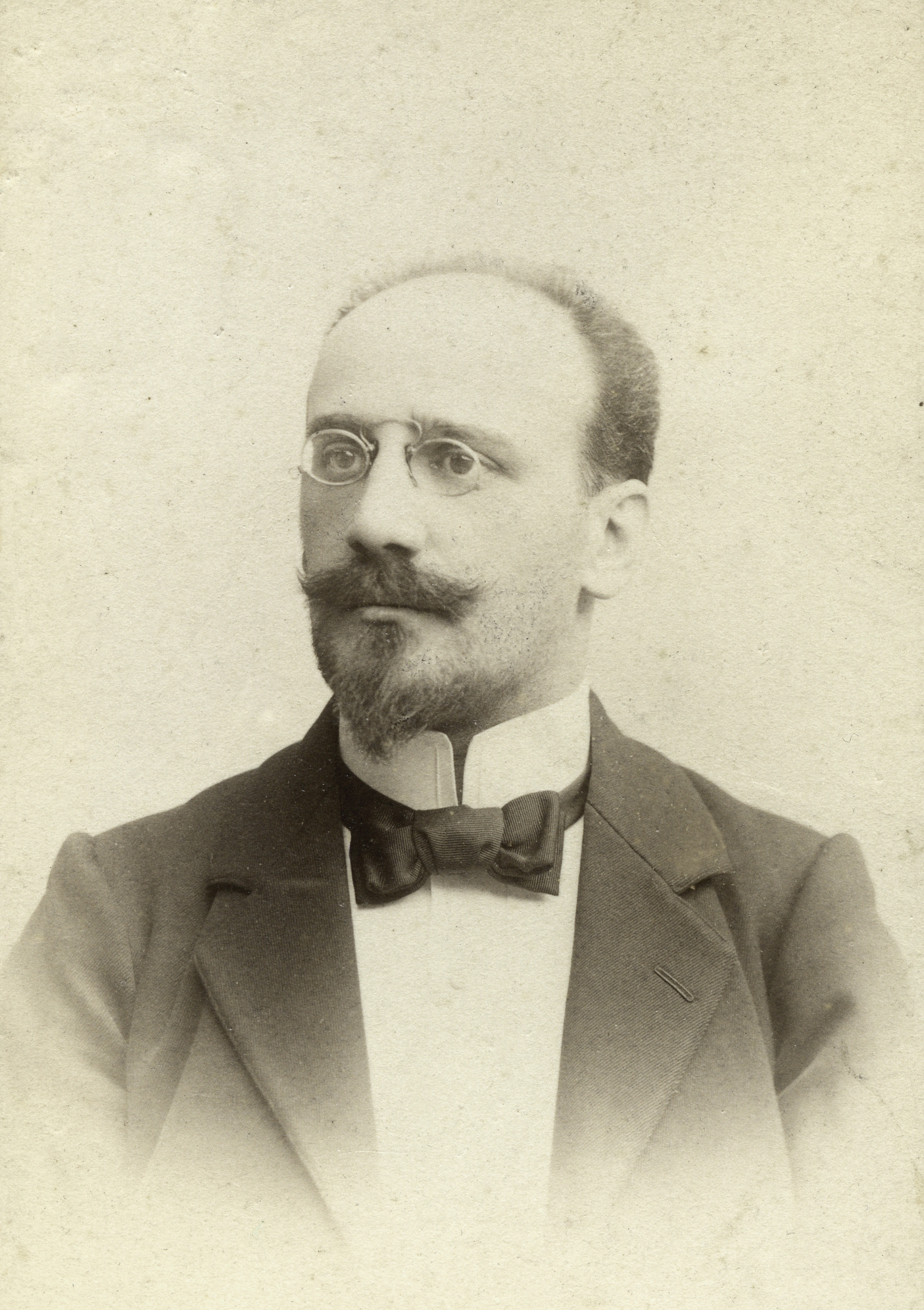 Władysław Semadeni (1865-1930), pastor ewangelic-reformed church in Poland.